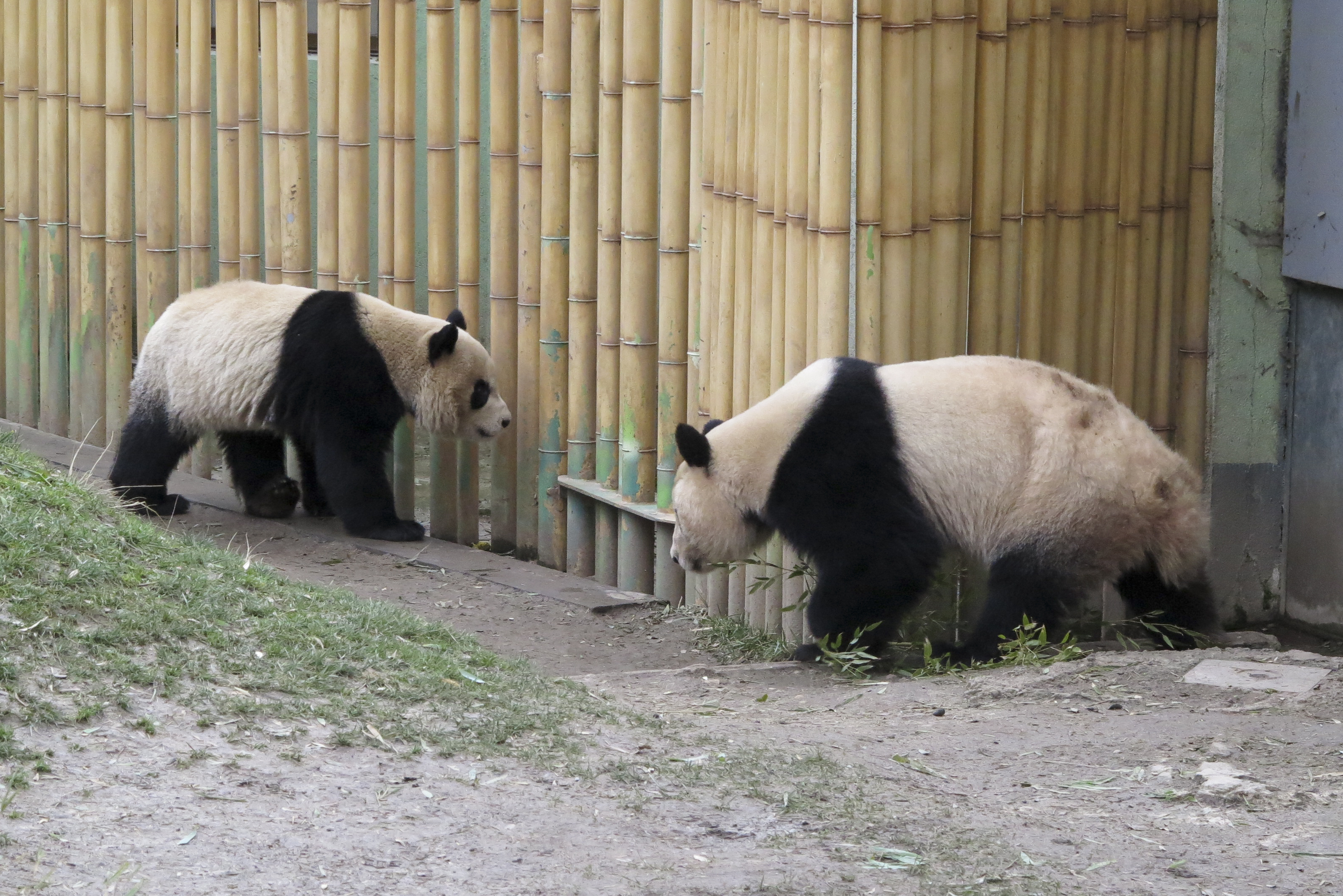 Giant panda, twins Po och De De, born September 7, 2010. Madrid Zoo Aquarium.